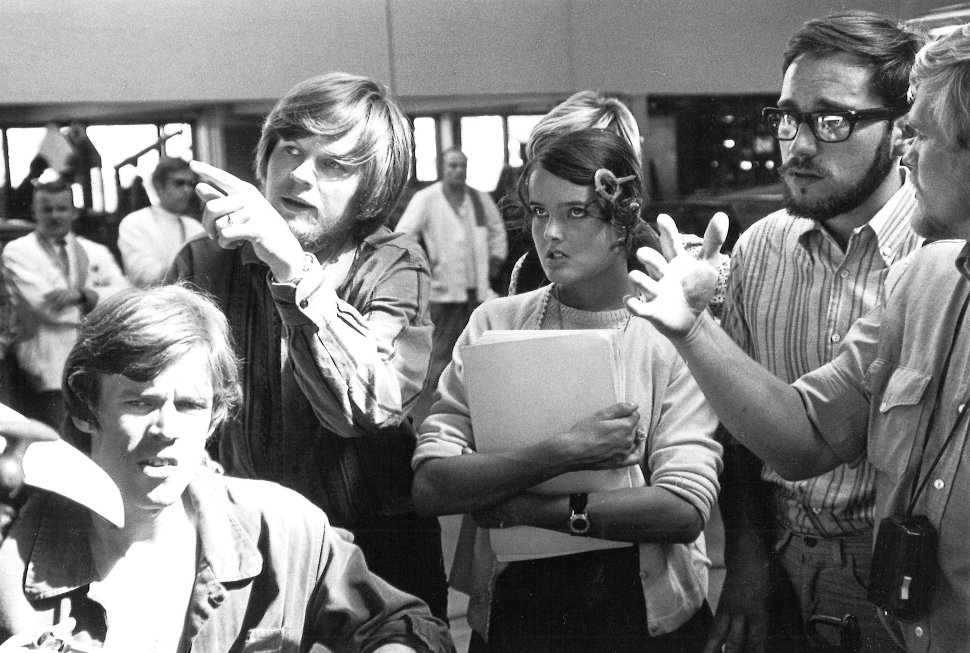 Photograph of cast & crew of the Finnish movie Punahilkka: Hannu Kahakorpi (actor), Timo Bergholm (director), Kristiina Halkola (actor), Matti Penttilä (sound recodist) and Kari Sohlberg (cinematographer). They are filming at a car repair shop in Helsinki.